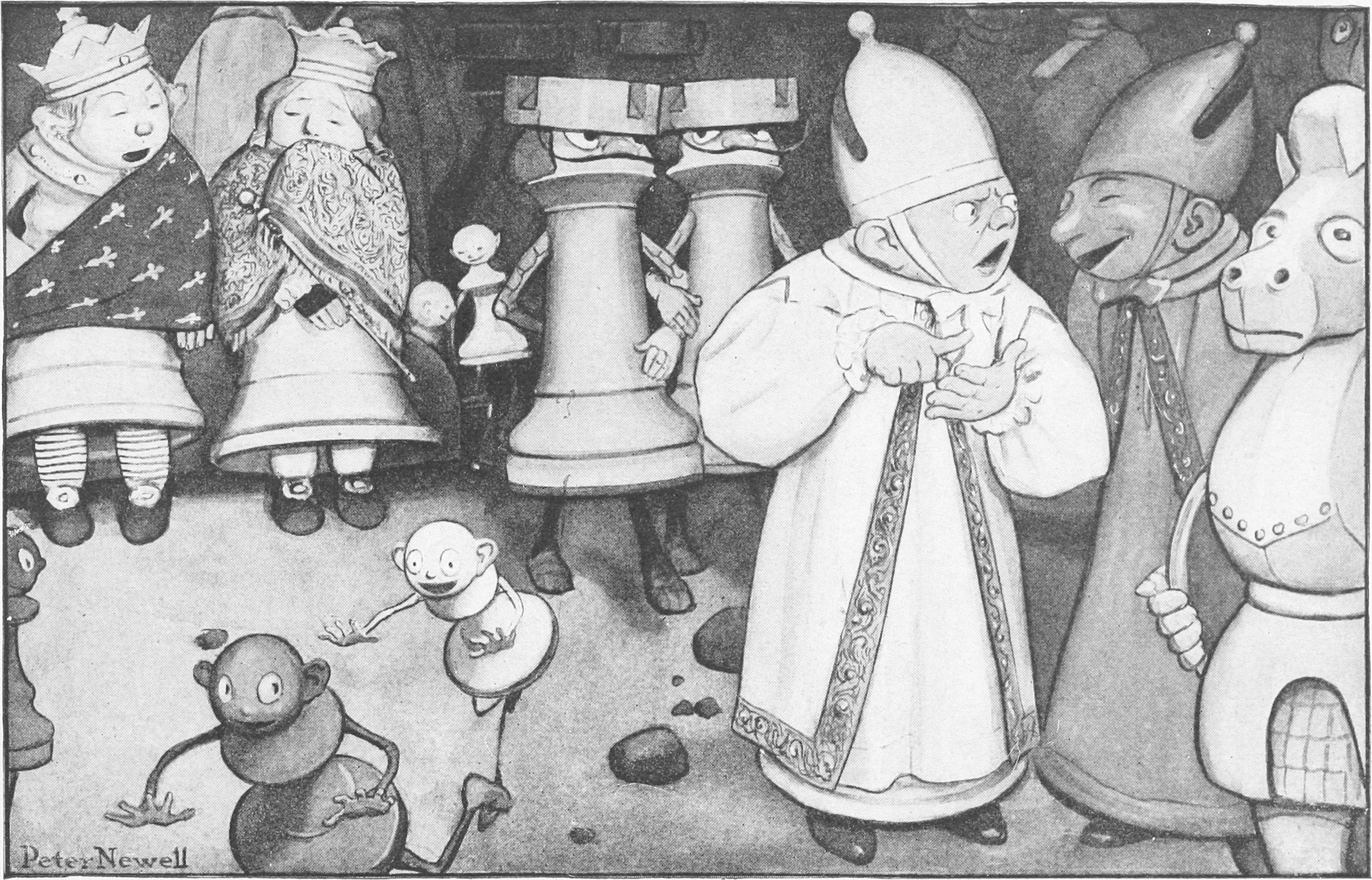 "The chessmen were walking about, two and two!". Illustration by Peter Newell to "Through the Looking-Glass and What Alice Found There", chapter "Looking-Glass House"